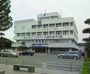 Misawa City Hall in Aomori Prefecture, Japan